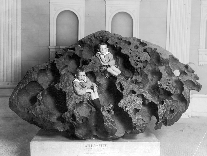 Two boys sitting inside the Willamette Meteorite at the American Museum of Natural History in New York City, 1911.